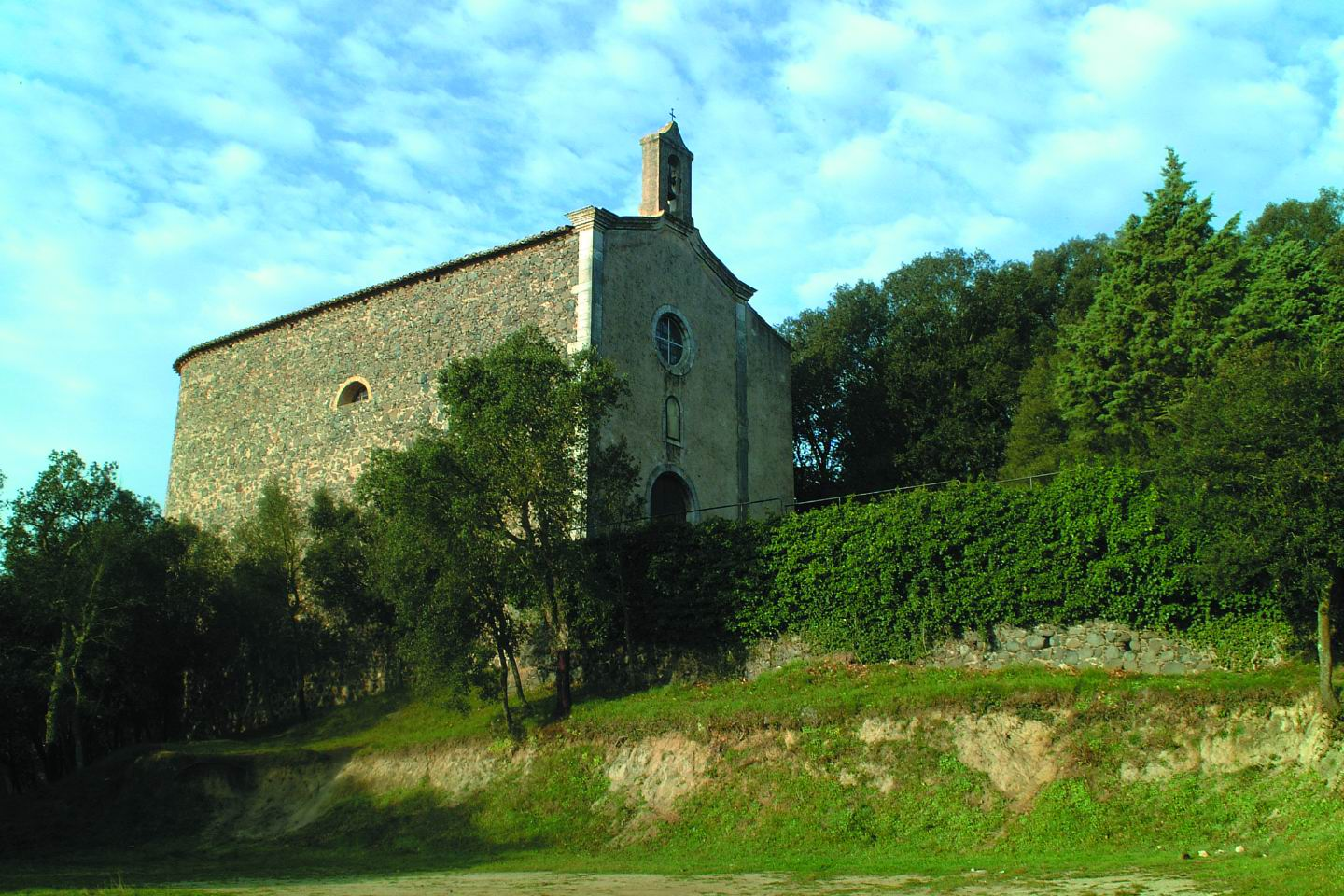 Ermita de Sant Maurici